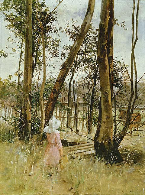 "Obstruction" by Jane Sutherland. From here.